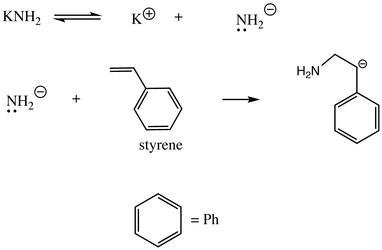 Initiation mechanism for anionic addition polymerization through strong anion initiator